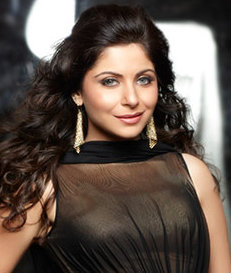 Singer Kanika Kapoor launches her single 'Teddy Bear' at Palladium.